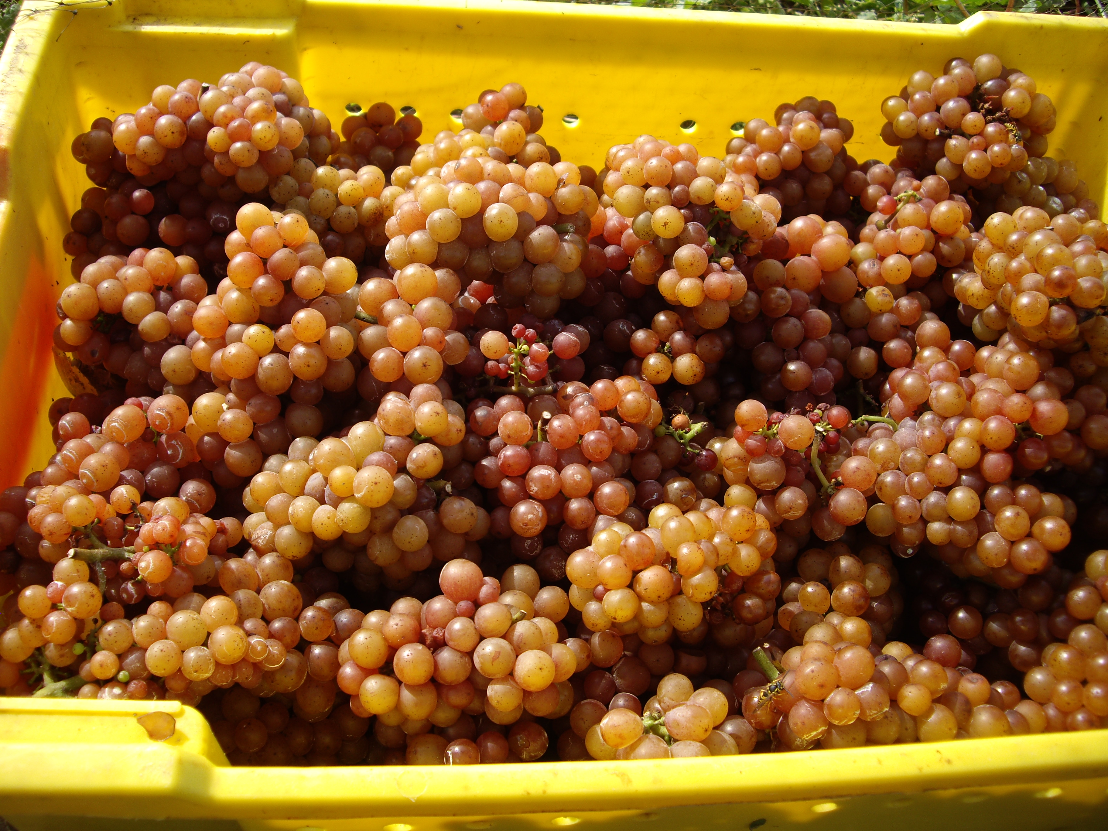 A harvest bin of Gewurztraminer grapes